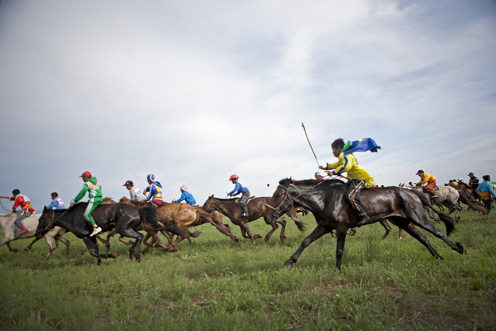 Young jockeys sprint from the starting line of a Naadam horse race. Ugtaal Soum, Mongolia.